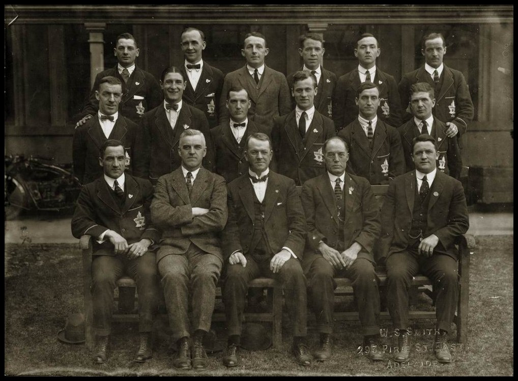 Members of the Canadian Soccer Team who toured Australia and New Zealand in 1924. Photographer W.S. Smith. Back row L-R: R. (Dickie) Stobbart (Nanaimo), William (Bill) Linning (Lethbridge Veterans United), Leslie Ford (Regina Thistles), William Sanford (Montreal Blue Bonnets), George Forrest (Toronto Ulster United), Jack Armstrong (Vancouver St. Andrews). Middle row L-R: M. McLean (Calgary), H. Noseworthy (Montreal), Fred Dierden (Toronto Willys-Overland), Jim Wilson (Edmonton Royals), J. Hood (Brandon), Fred Bowman (Saskatoon Radials). Front row L-R: Robert (Bob) Harley, captain, (Winnipeg United Weston), James Adam manager (Victoria B.C.) Lord Mayor of Adelaide C.R.J. Glover, T. Thompson, president South Australian B.F. Association, W. Bellis (Adelaide South Australia).